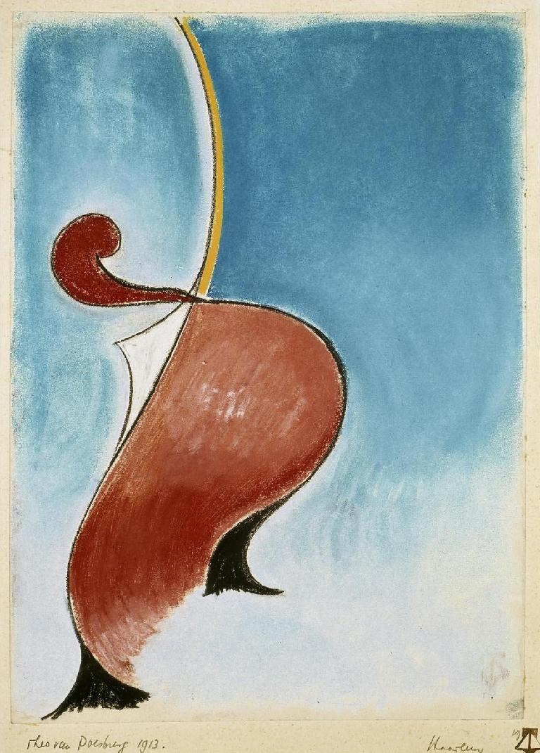 Mouvement héroïque. Pastel on paper. 35,5 × 25,5 cm. Utrecht, Centraal Museum (inv.nr. AB4572). Published in: H.L.C. Jaffé (1983) Theo van Doesburg, [Amsterdam]: Meulenhoff/Landshoff, ISBN 90-290-8272-0, p. 16 (black and white; as Heroïsche beweging, 1913).